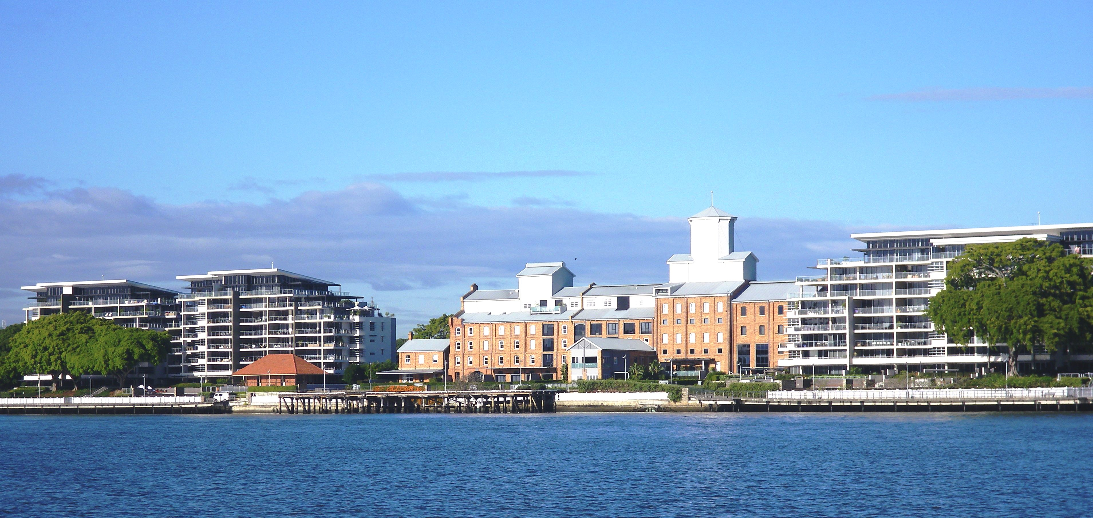 Cutters Landing is a unique residential precinct on more than 4 hectares of land, previously occupied by the Colonial Sugar Refinery. New apartments and houses are integrated with the site’s historic buildings and structures, including the refurbished 1893 refinery as loft-style apartments, the 1901 workers’ recreation room as a gym and the retention of remnant sections of the wharf and railway line as part of the public spaces.